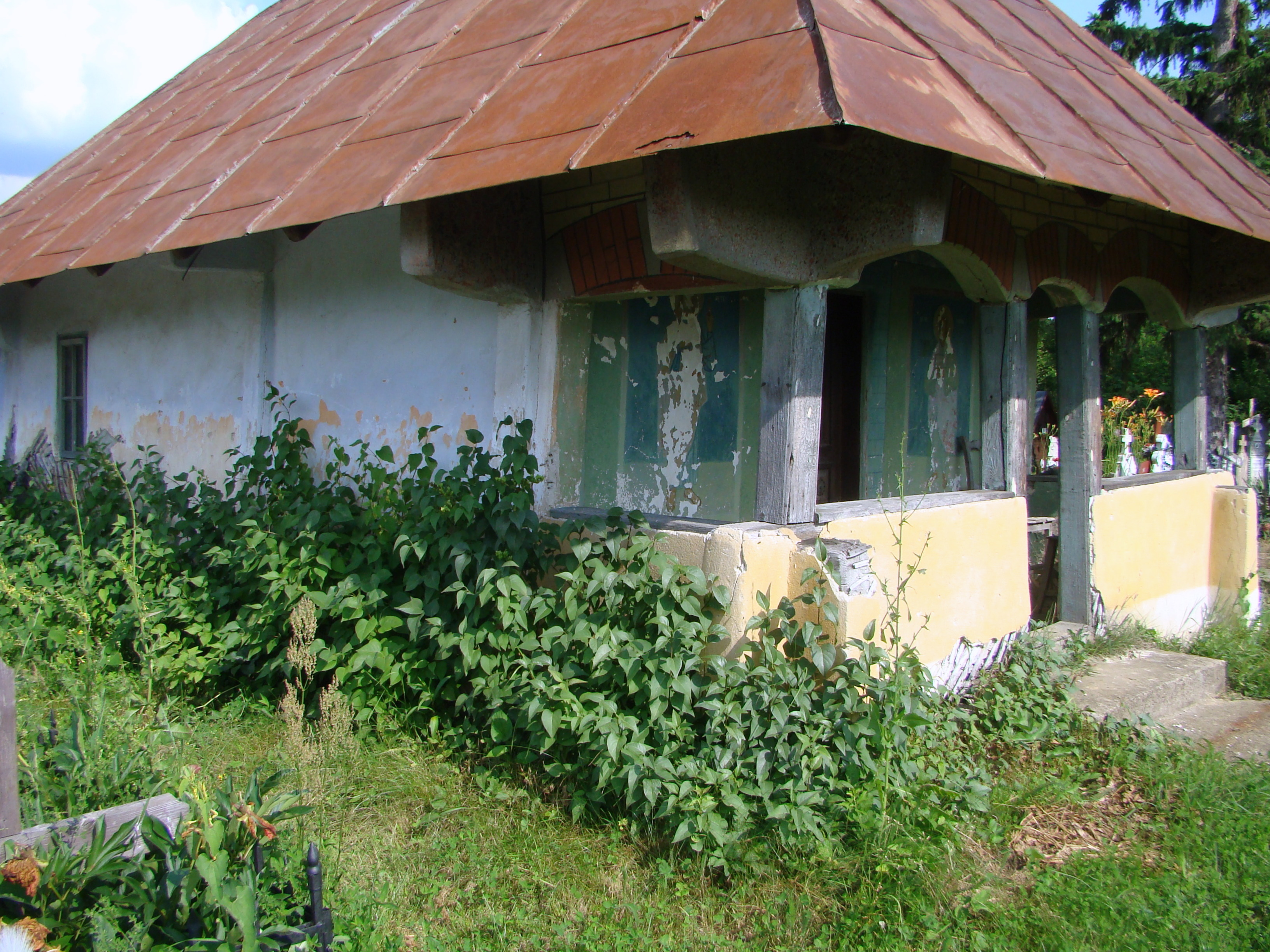 Wooden church in Mușetești-Sârbești, Gorj county, Romania